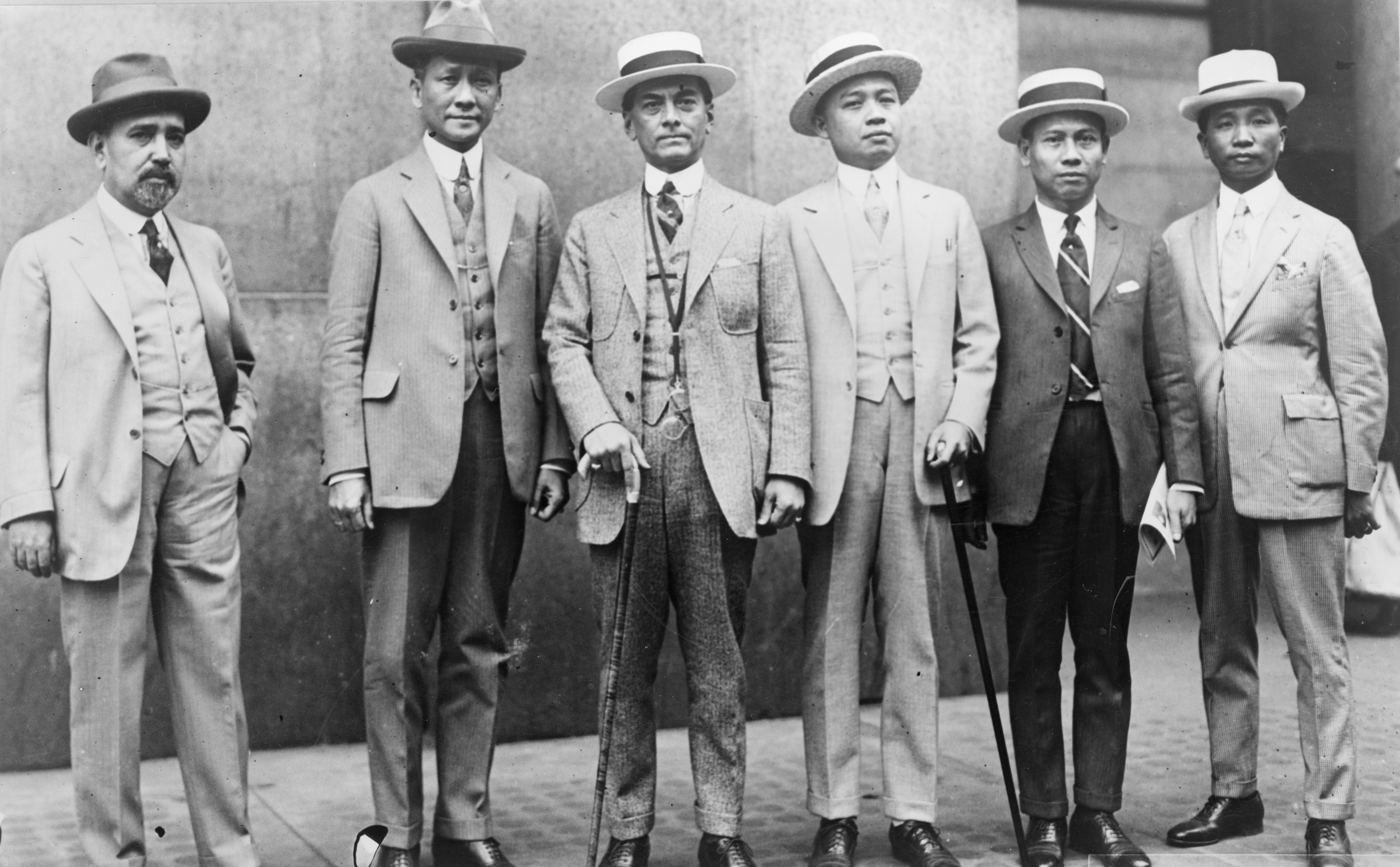 Title: [Manuel Luis Quezon, (center), with representatives from the Philippine Independence Mission] Date Created/Published: 1924 June 20. Medium: 1 photographic print. Summary: Photo shows left to right: Hon. Isauro Babaldon, Philippine President Commissioner to the U.S.; Hon. Sergio Osmana, member of the Philippine Senate; Hon. Manuel L. Quezon, President of the Philippine Senate, Chairman; Hon. Claro M. Recto, Member and Minority Leader in the Philippine House of Representatives; Hon. Pedro Guevara, Philippine President Commissioner to the U.S.; Dean Jorge Bocobo, Technical Adviser to the Mission. Reproduction Number: LC-USZ62-139506 (b&w film copy neg.) Rights Advisory: No known restrictions on publication. Call Number: BIOG FILE - Quezon, Manuel Luis [item] [P&P] Repository: Library of Congress Prints and Photographs Division Washington, D.C. 20540 USA Notes: Title devised by Library staff. No. 365081. Note on verso: Filipino representatives who have come ten thousand miles to attend the Democratic National Convention and urge incorporation in the Democratic Platform of a Phillippine Immediate Independence Plan Plank. The mission is headed by the Hon. Manuel L. Quezon, President of the Philippine Senate, the highest elective office in the Islands.